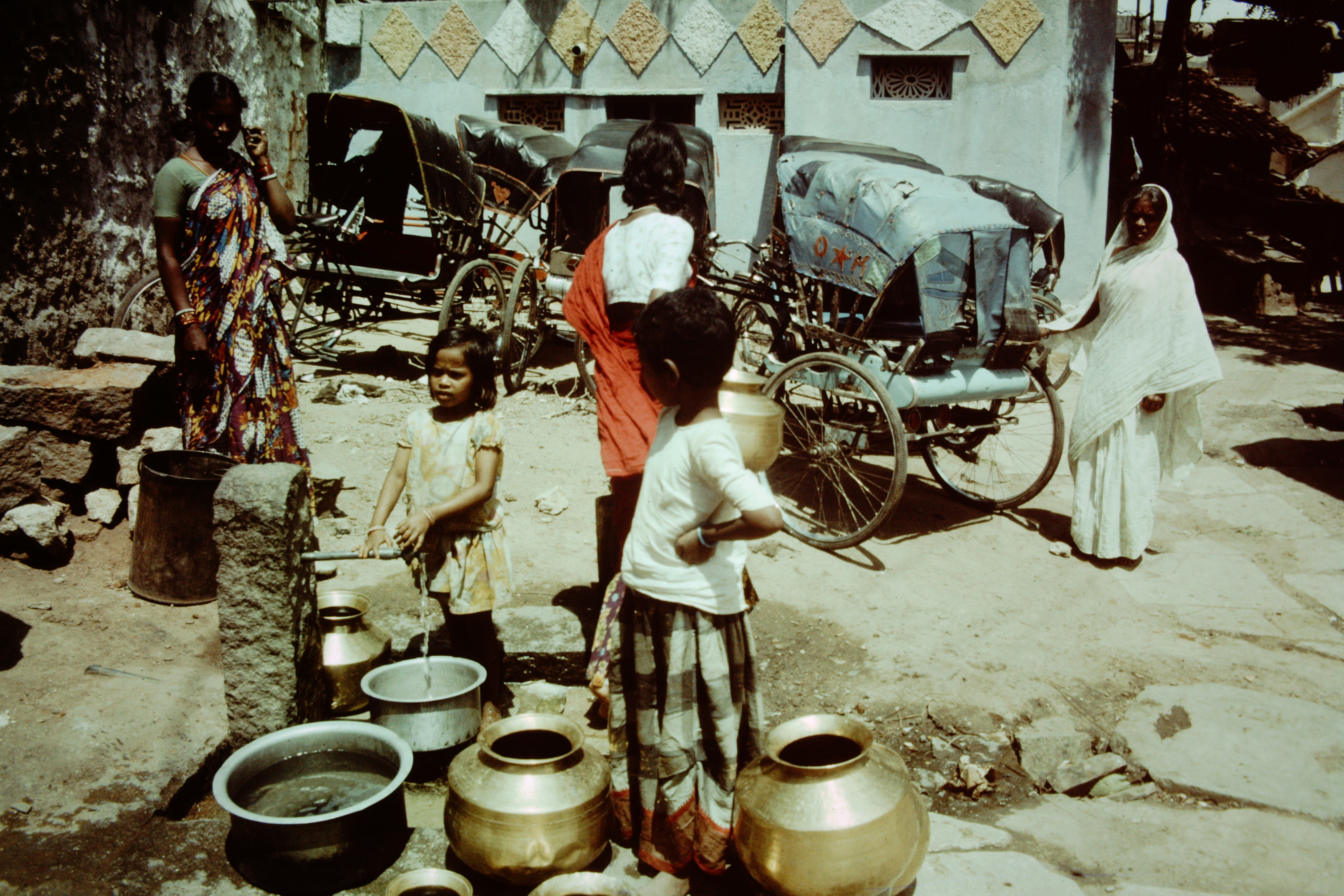 Water tap with women, children and rickshaws in the unimproved area, Hyderabad slum improvement, India